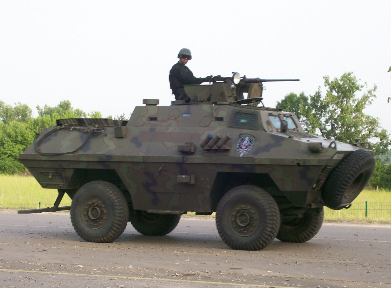 BOV of the croatian Special Operations Battalion